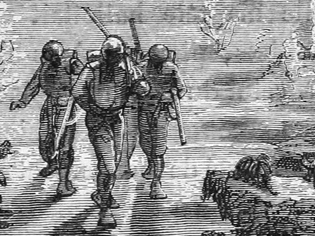 Image from scan vingtmillelieue00vern_orig_0131.jp2